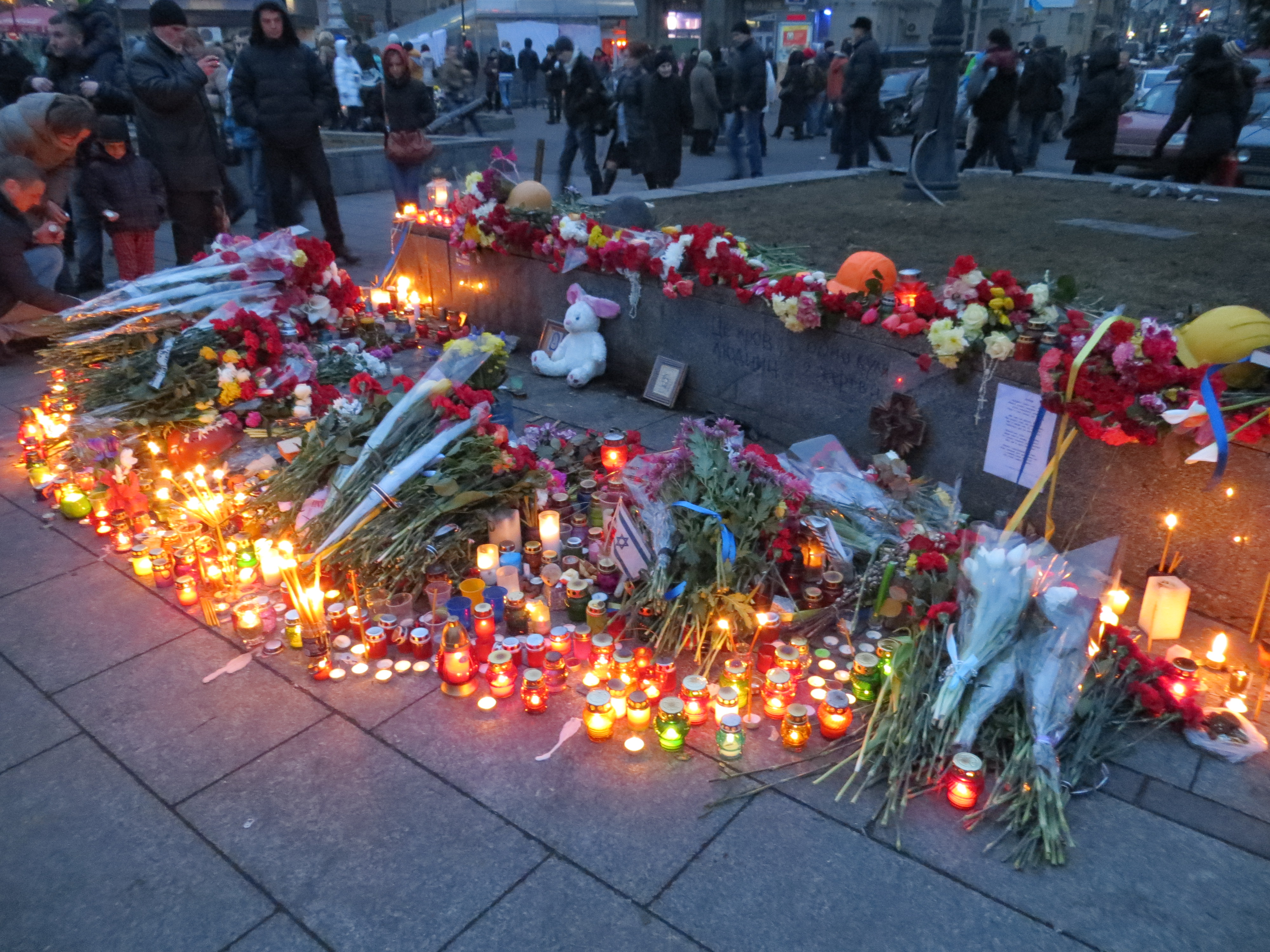 Euromaidan, Kyiv. February 23, 2014